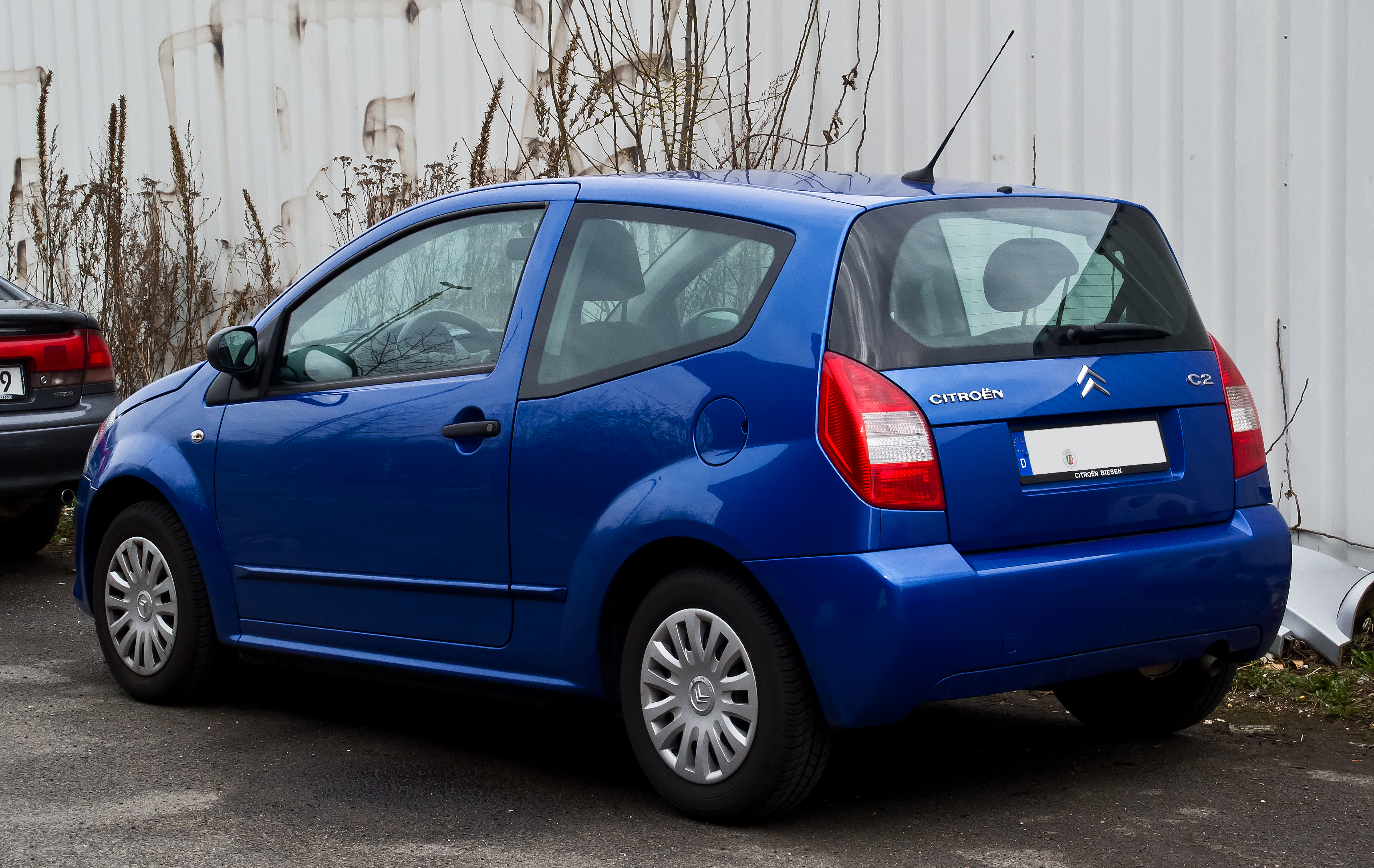 Citroën C2 (2. Facelift)